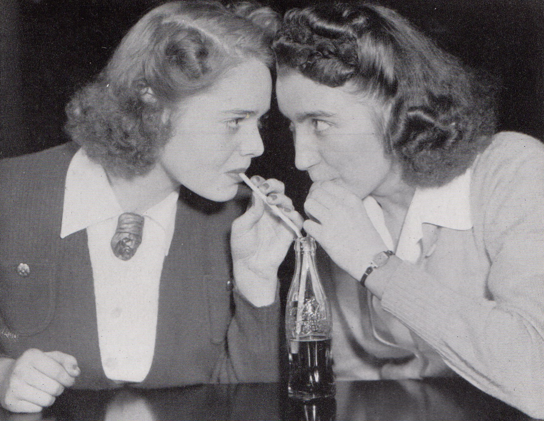 Photograph of two students sharing a bottle of Coca-Cola at Shimer College in 1941-1942, from the 1942 yearbook of Shimer College. Captioned "Marj of Paree, Senorita Laura: Drink Coca-Cola and Keep Talking!" Now a liberal arts college in Chicago with a Great Books curriculum, Shimer was then a four-year women's junior college in Mount Carroll, Illinois. Published in the school's 1942 yearbook, which does not contain a copyright notice. Additionally in the public domain due to the terms of dedication of the Shimer College Collection (which includes a copy of this yearbook) to NIU in 1979, which vested literary rights in the collection in the public.